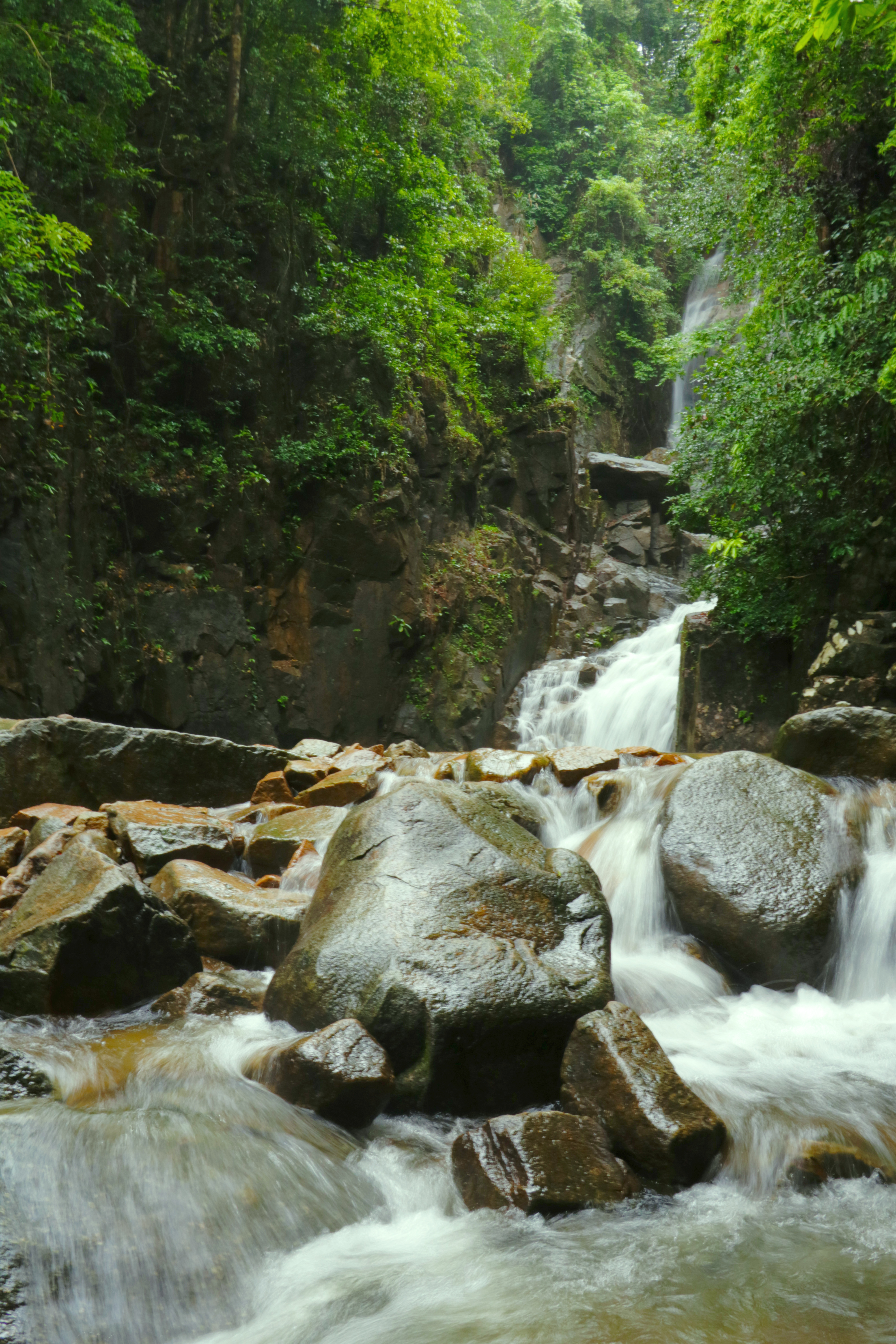 Phlio Waterfall is one of the most well known waterfall in Chanthaburi Province, Thailand.